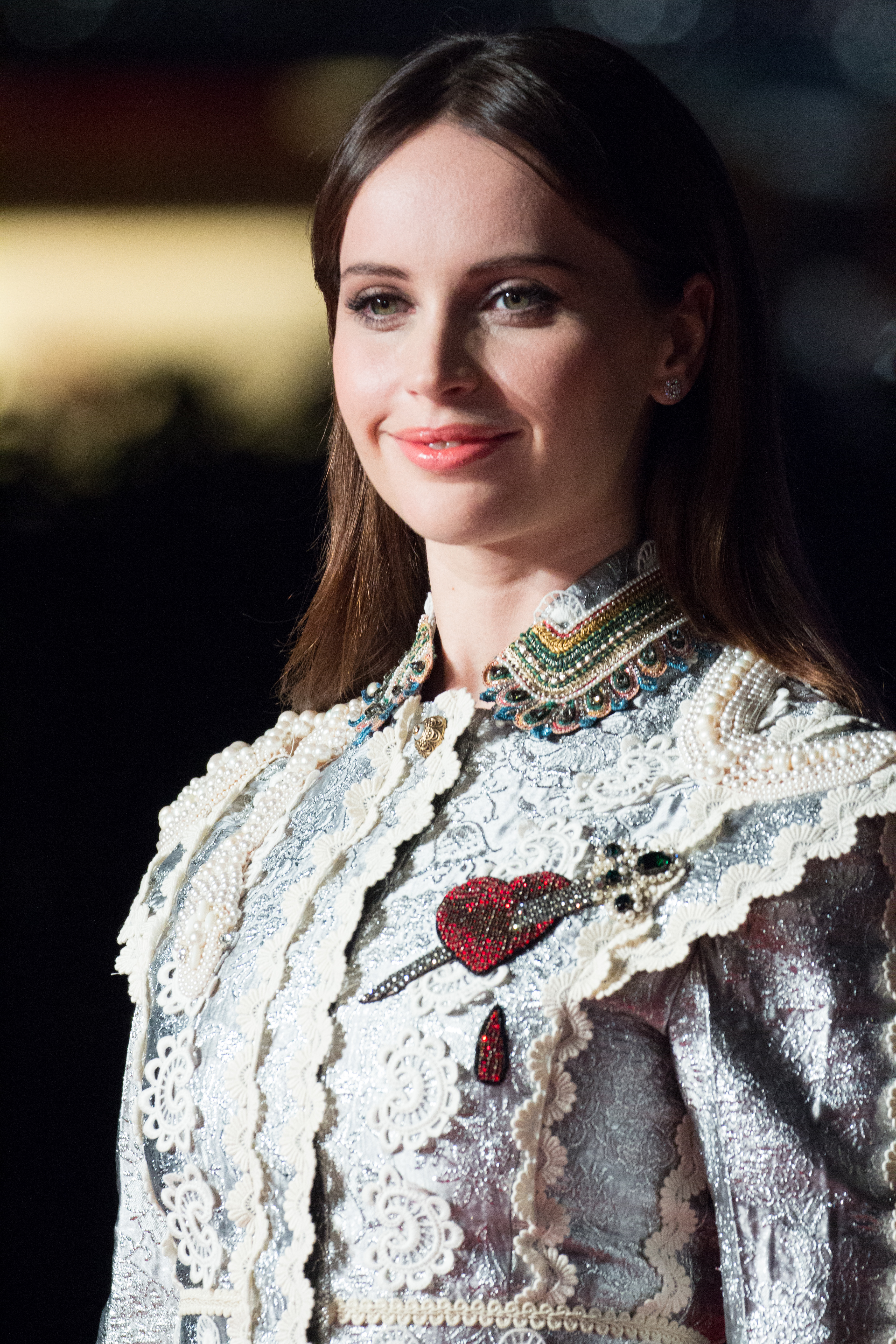 Felicity Jones at Rogue One: A Star Wars Story Japan Premiere Red Carpet on December 8, 2016.